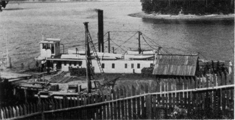 Steamer Northern Light, somewhere on Puget Sound.